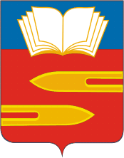 Klimovsk (Moscow oblast), coat of arms (2002)